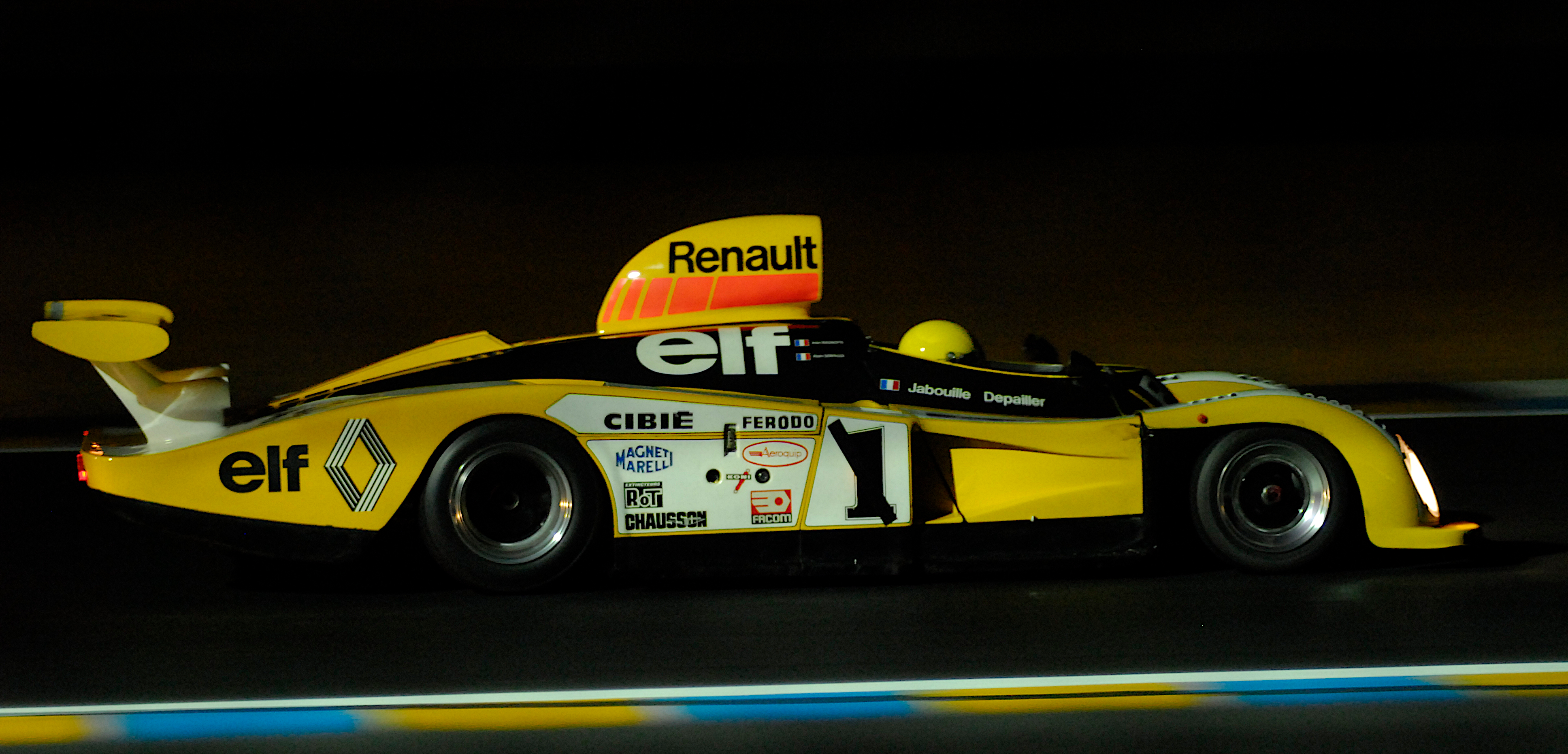 Le Mans classic, 7th-10th of July 2006